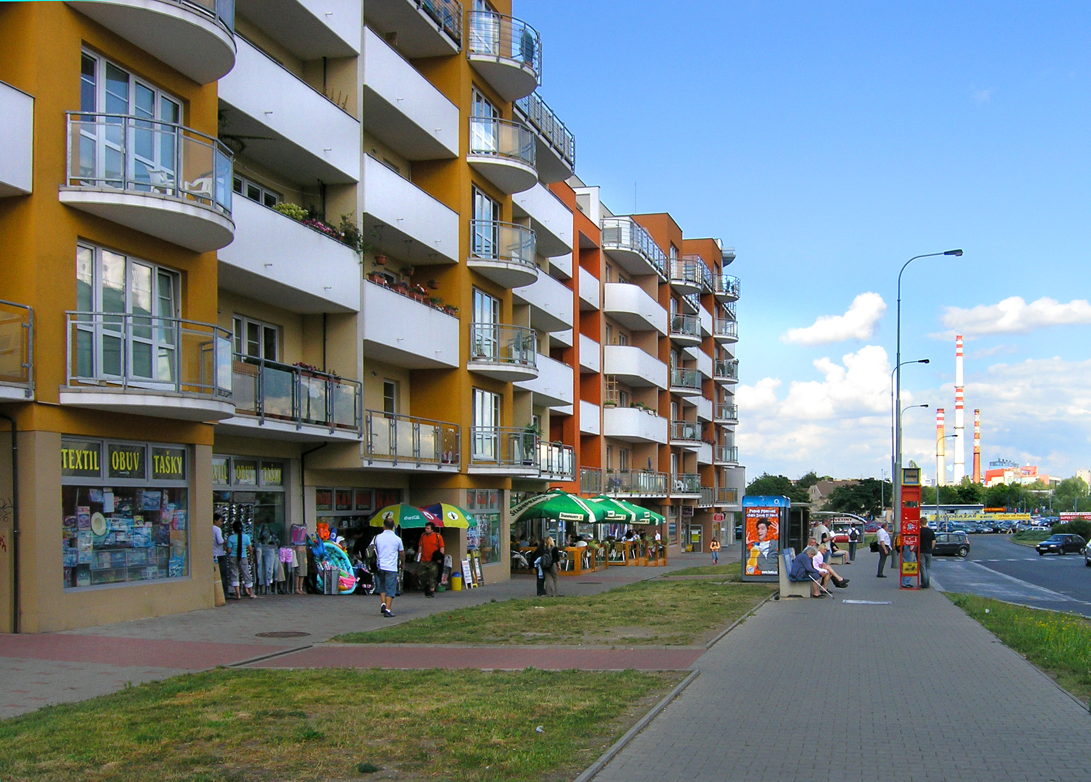 New hosiung by intersection of Počernická street with Limuzská street at housing estate Malešice, Prague. Heating plant Teplárna Malešice at the background.